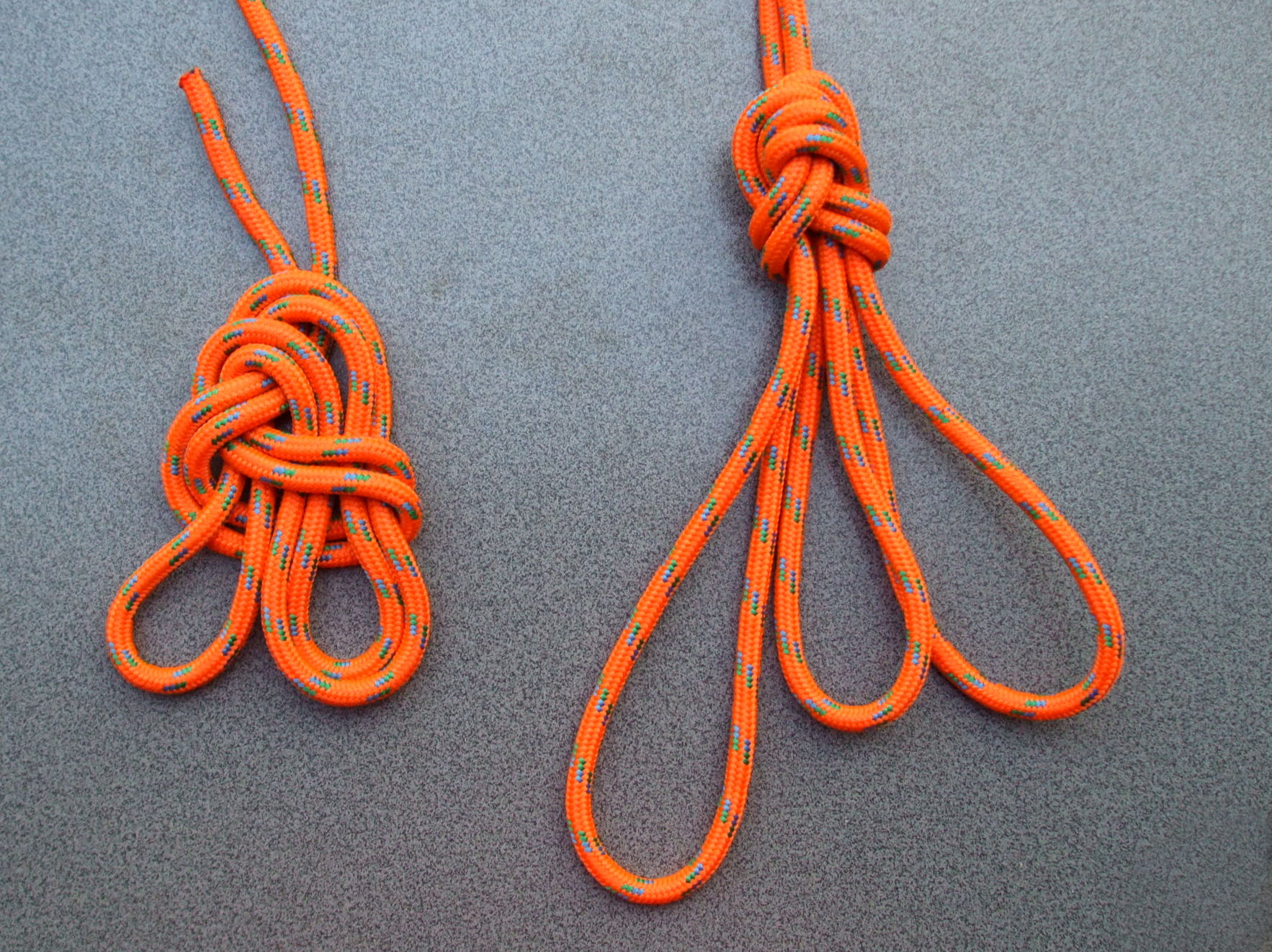 Figur-8-Knot 3-Loop